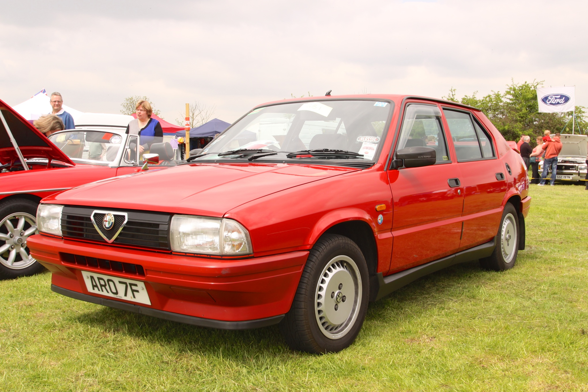 1987 Alfa Romeo 33 1.7 Green Cloverleaf